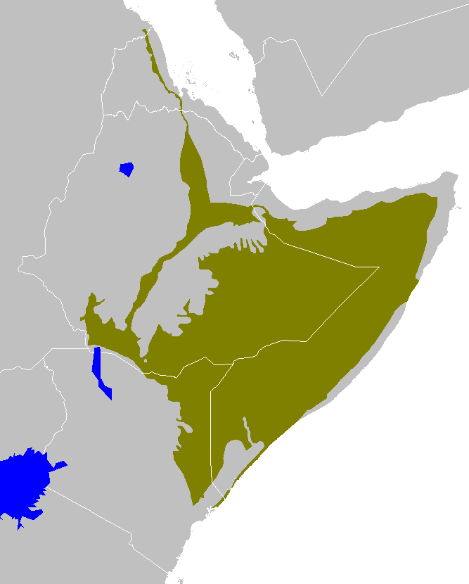 Somali Acacia-Commiphora bushlands and thickets ecoregion map. In the Tropical and subtropical grasslands, savannas, and shrublands Biome.